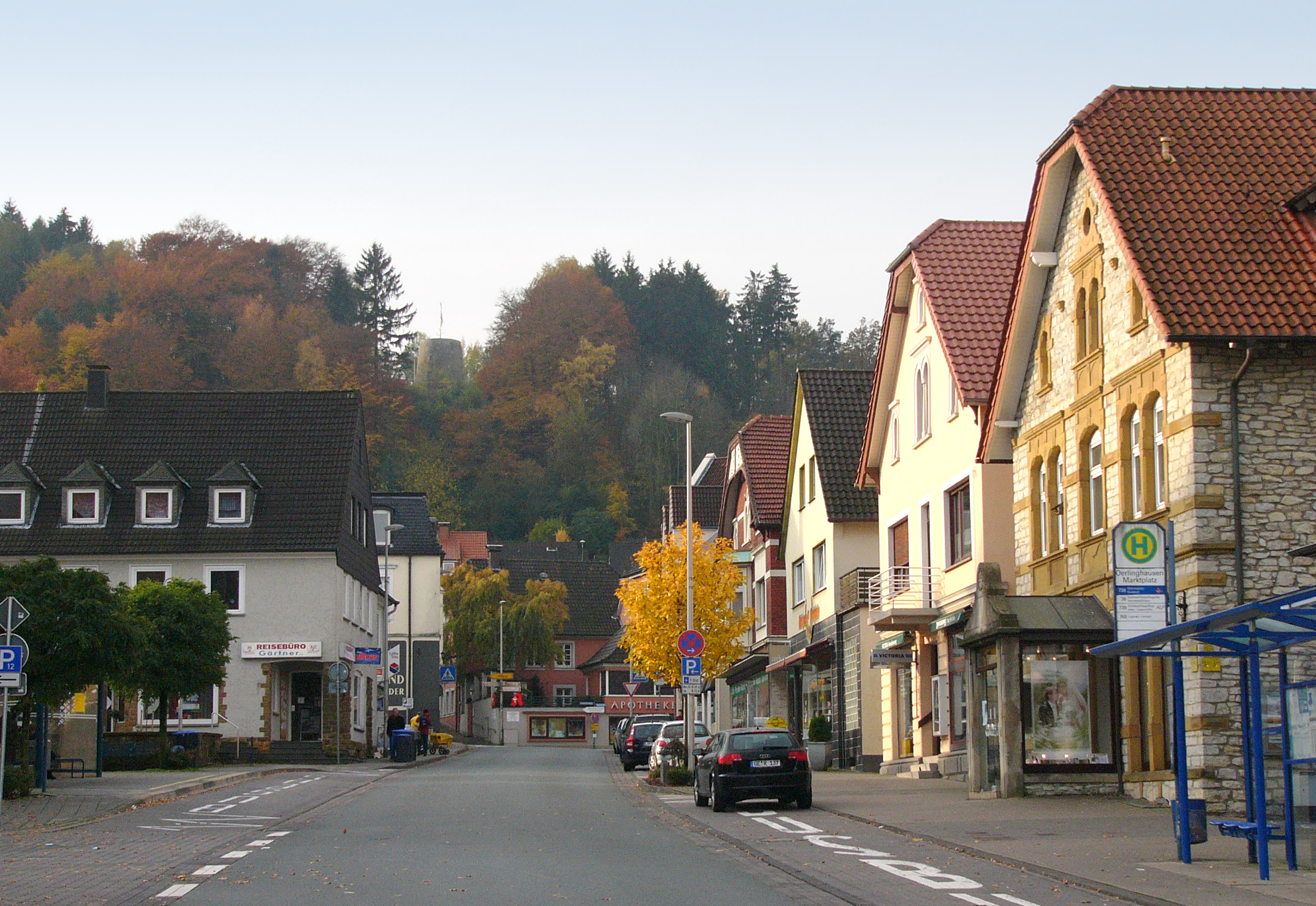 Oerlinghausen, Germany - View from Rathausstraße to Tönsberg